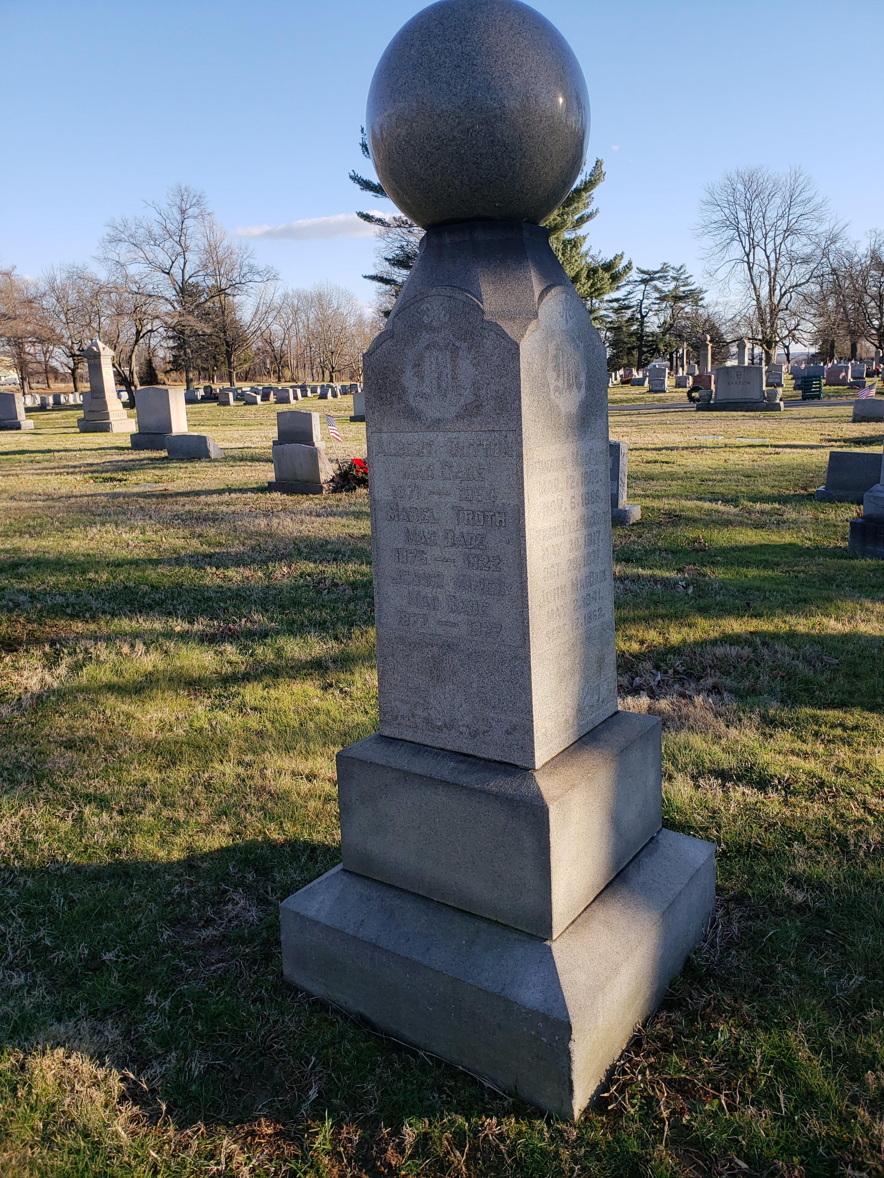 Photo of Albert Dutton MacDade grave in Lawn Croft Cemetery, Linwood Pennsylvania. Photo taken January 2019.